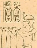 King Nastasen, from his stela at Dongola